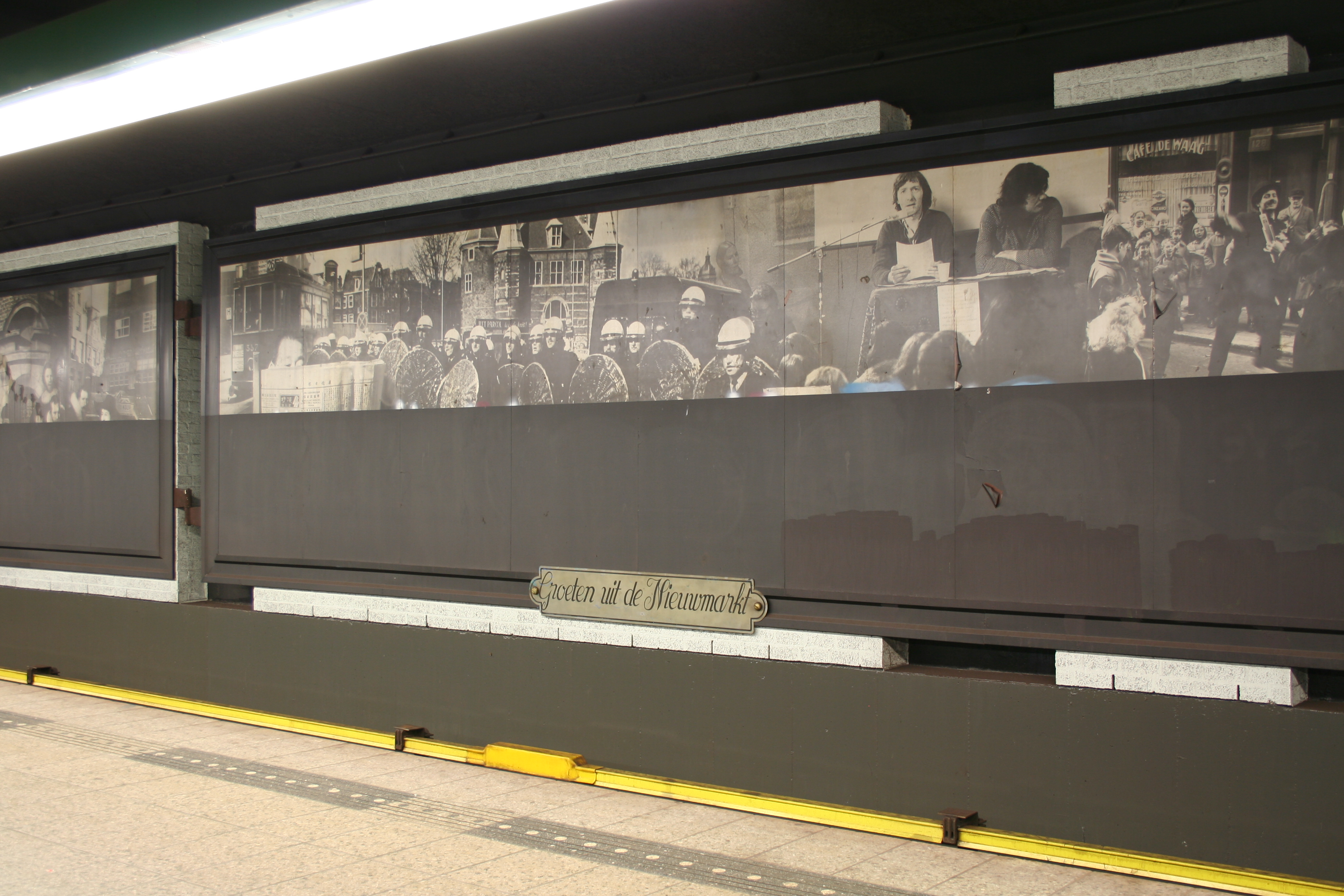 A photograph taken of the station Nieuwmarkt of the subway of Amsterdam.